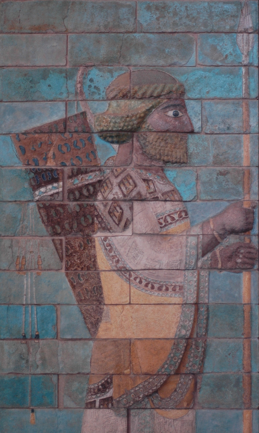 Lancer, detail from the archers frieze in Darius' palace at Susa. Glazed siliceous bricks, c. 510 BC.